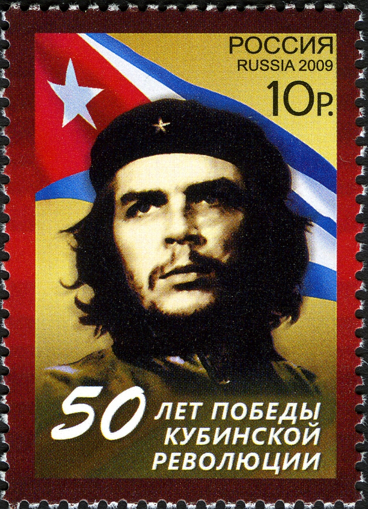 Stamps of Russia. The 50th anniversary of the Cuban revolution victory. Joint issue Russia - Cuba, 2009